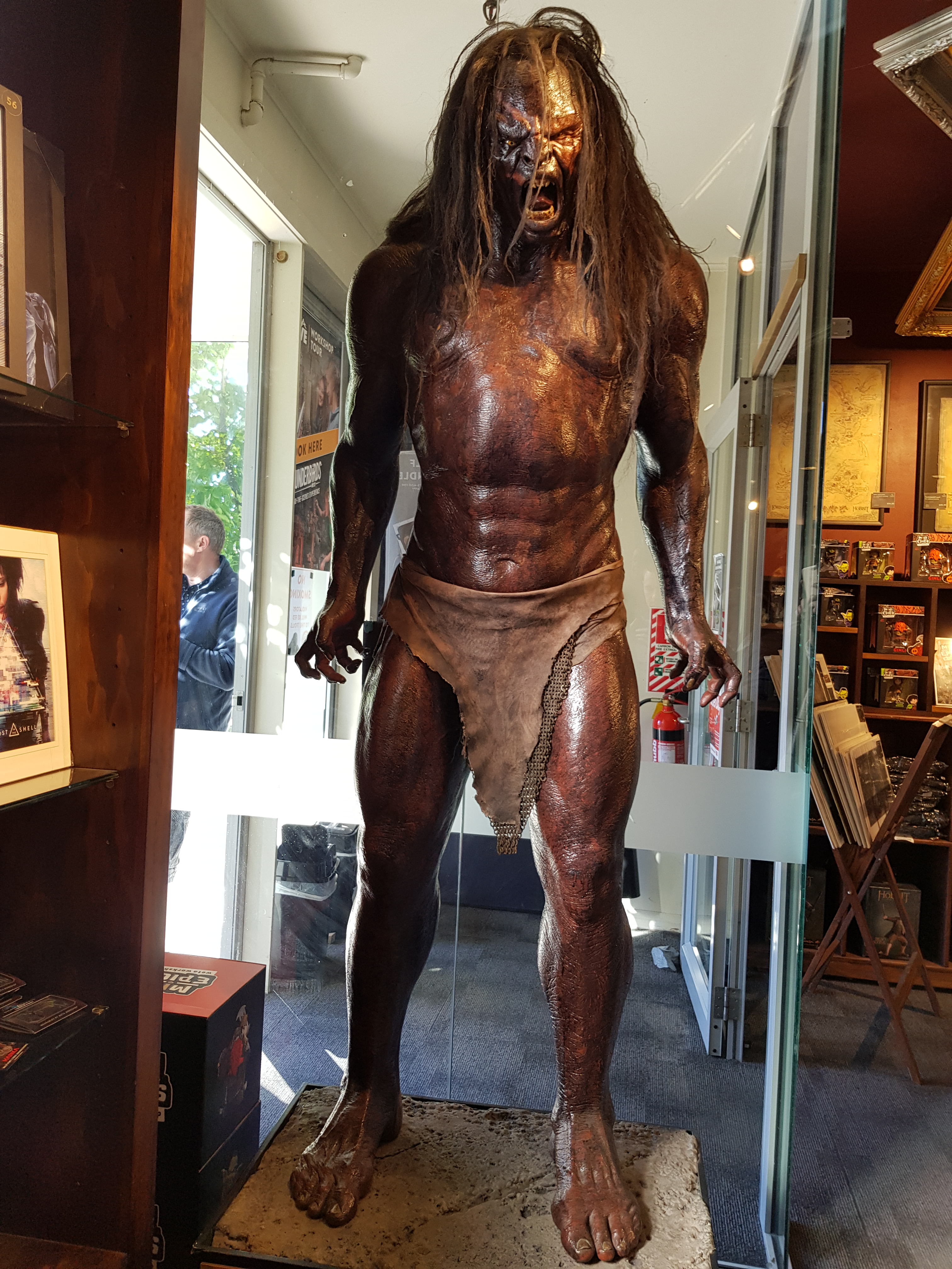 The Uruk-hai leader Lurtz in the Weta Cave in Wellington, New Zealand.